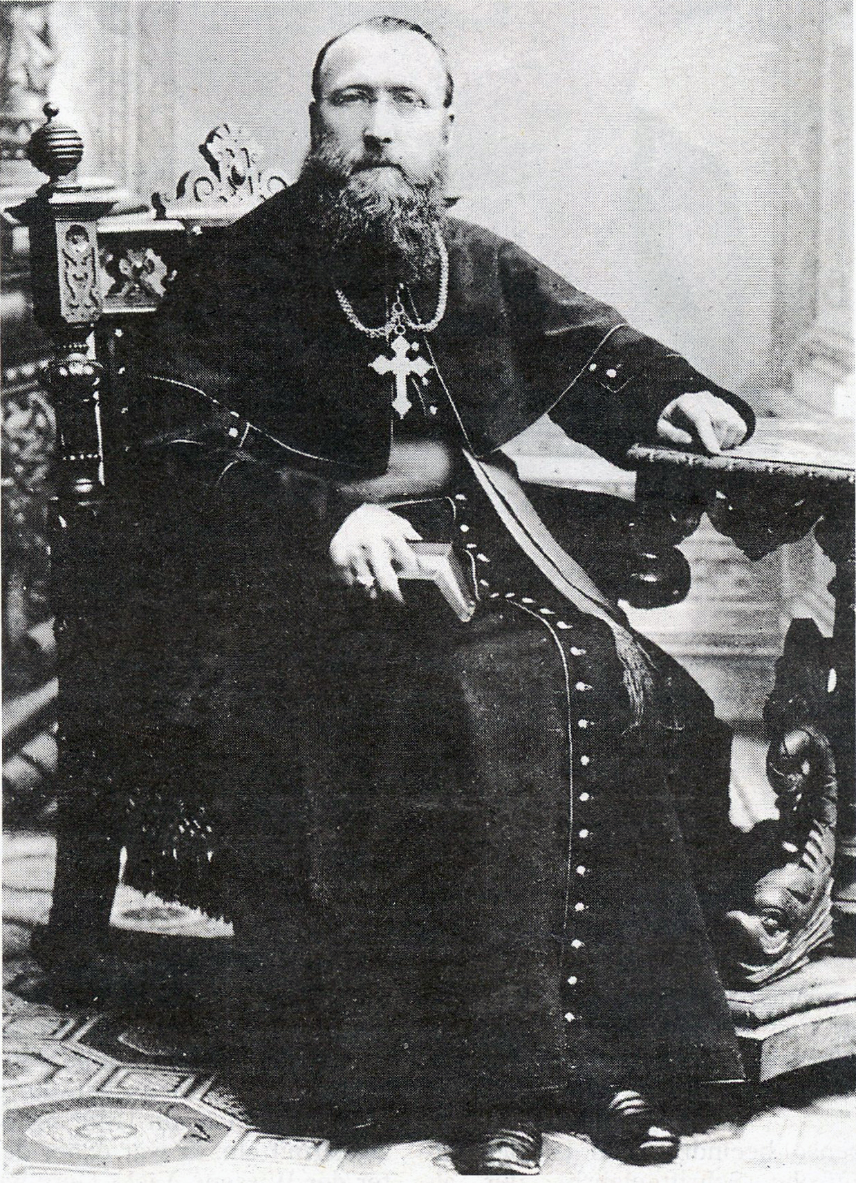 Jean-Baptiste Fallize (1844-1933), borne in Belgium to Luxembourger parents and deceased in Luxembourg City. He was the first Roman Catholic bishop (1892-1922) in Norway since the Reformation